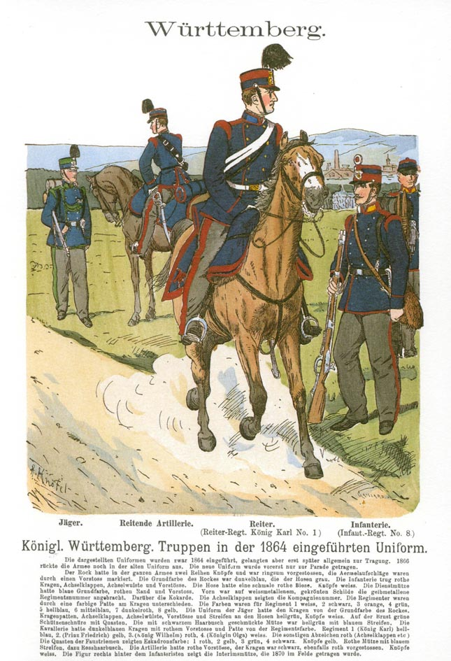 Württemberg. Königl. Württembergische Truppen in der 1864 eingeführten Uniform